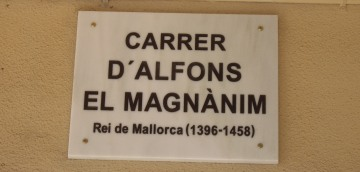 Alfons el Magnanim street plate